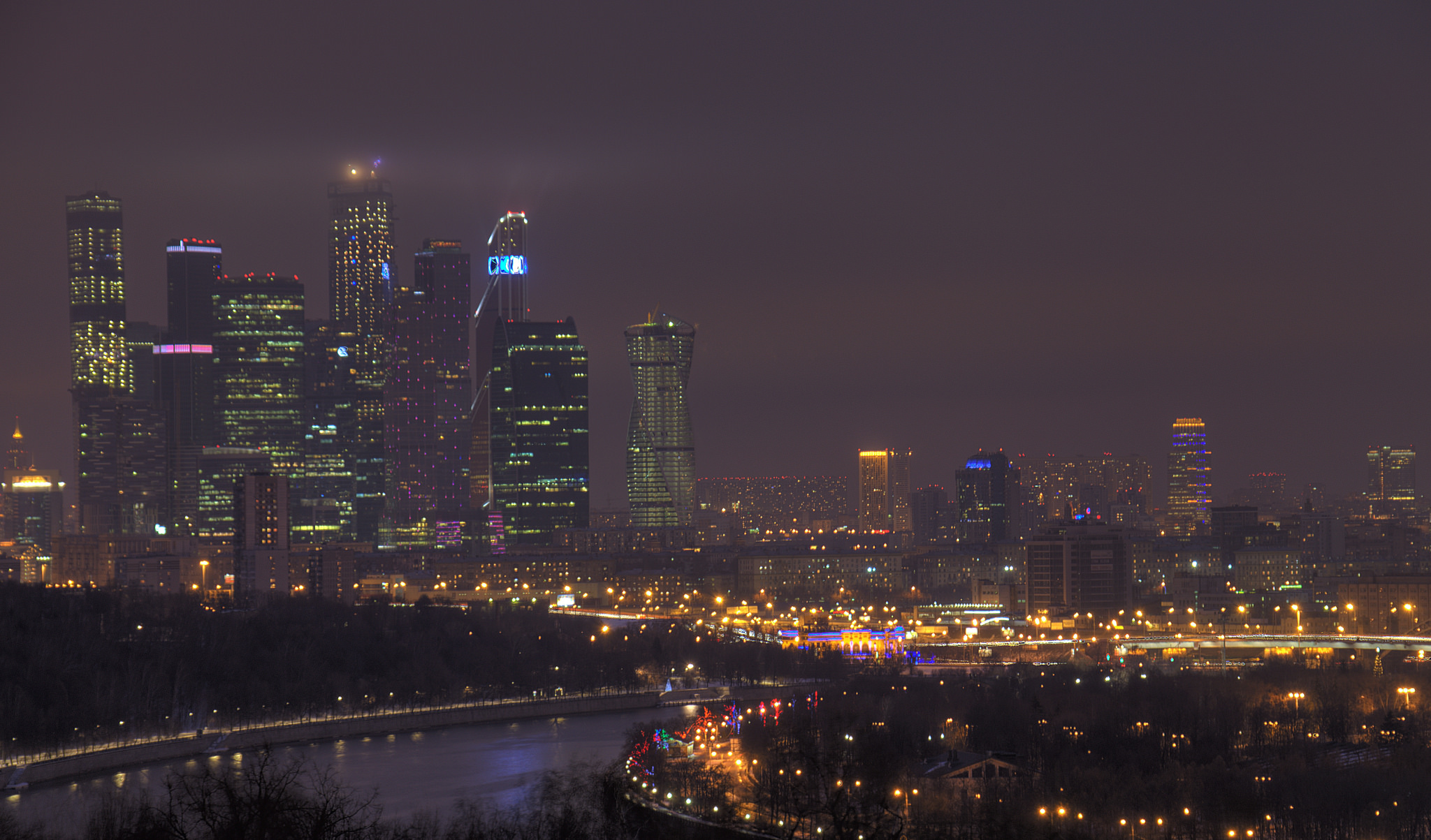 Moscow night.